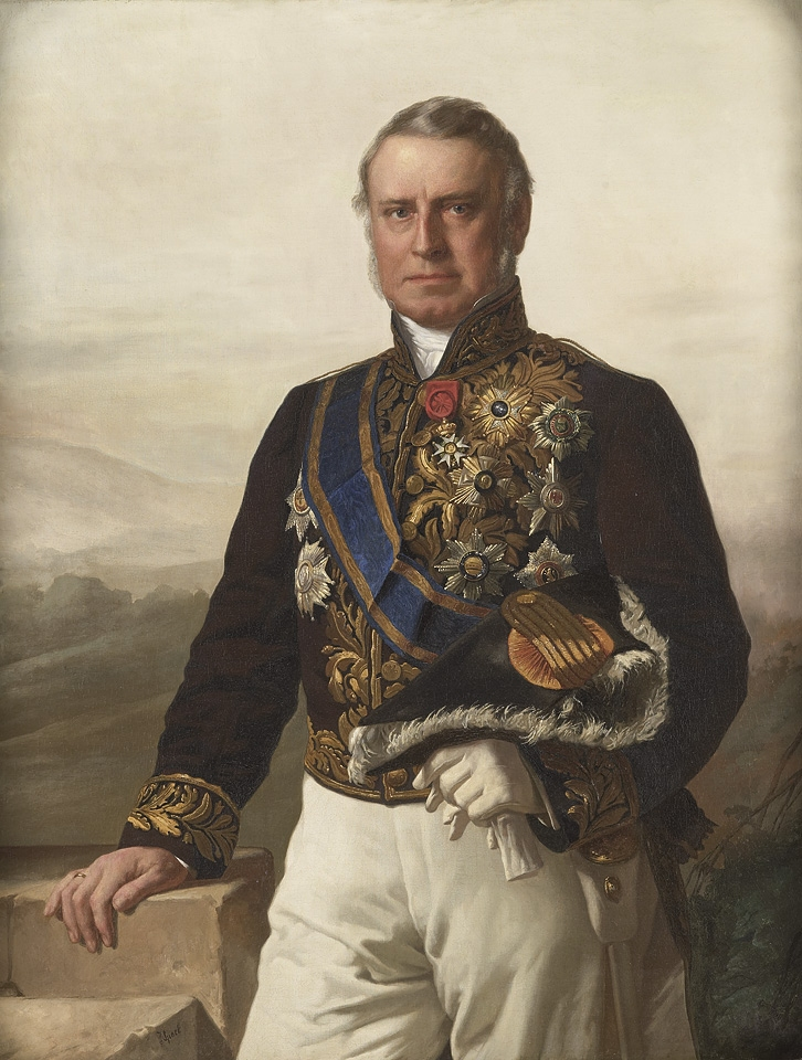 Charles Ferdinand Pahud, Governour-General of the Dutch East Indies